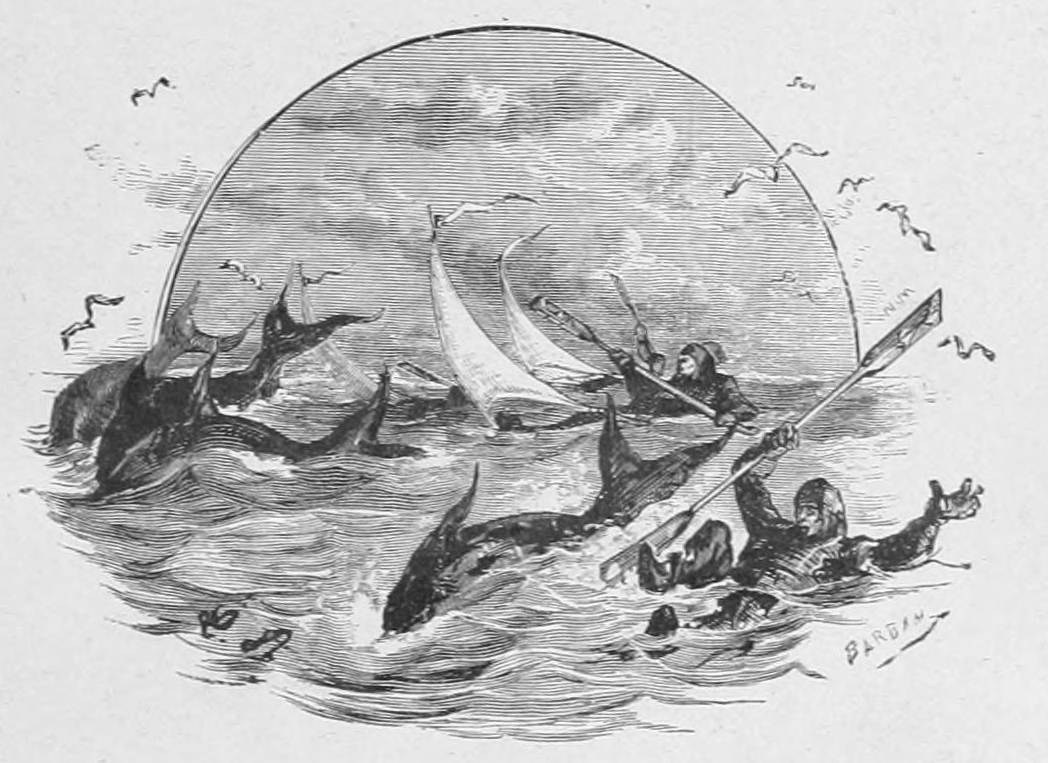 image of File:Verne - Les Tribulations d’un Chinois en Chine.djvu, page 9